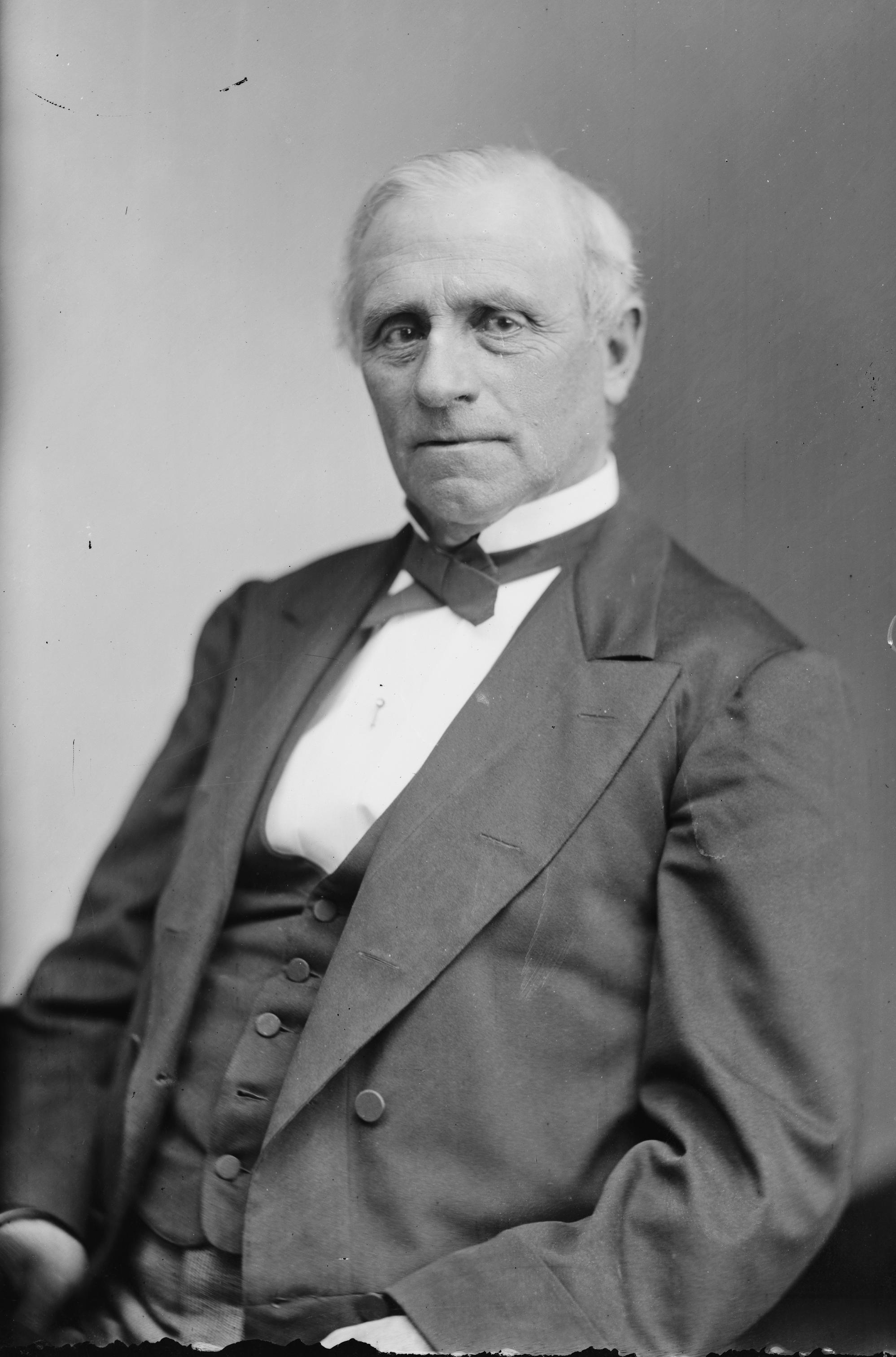 William W. Eaton. Library of Congress description: "Eaton, Sen. Wm. Wallace, Conn."